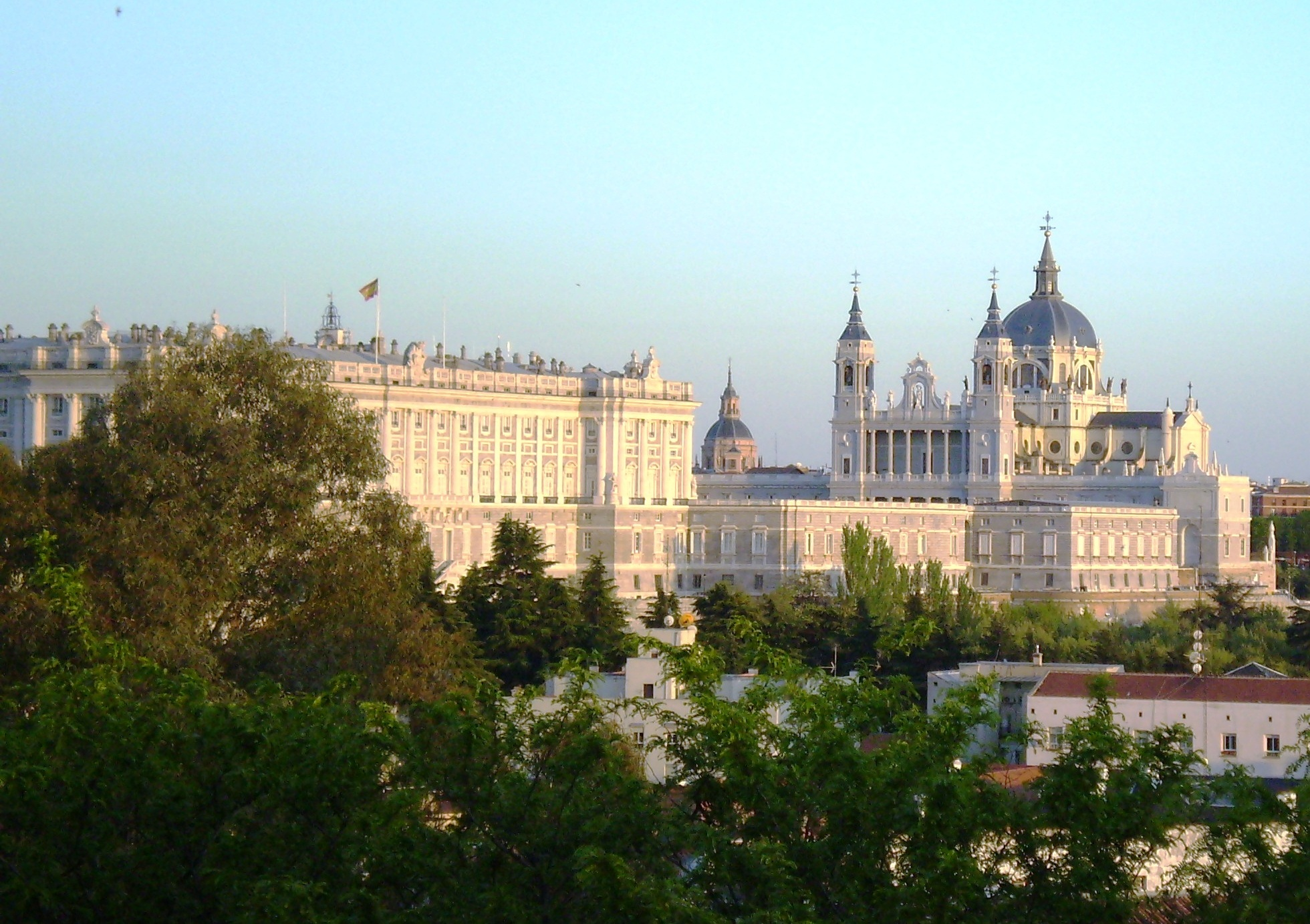 View of the Royal Palace and Almudena Cathedral, from Parque del Oeste. Madrid, Spain